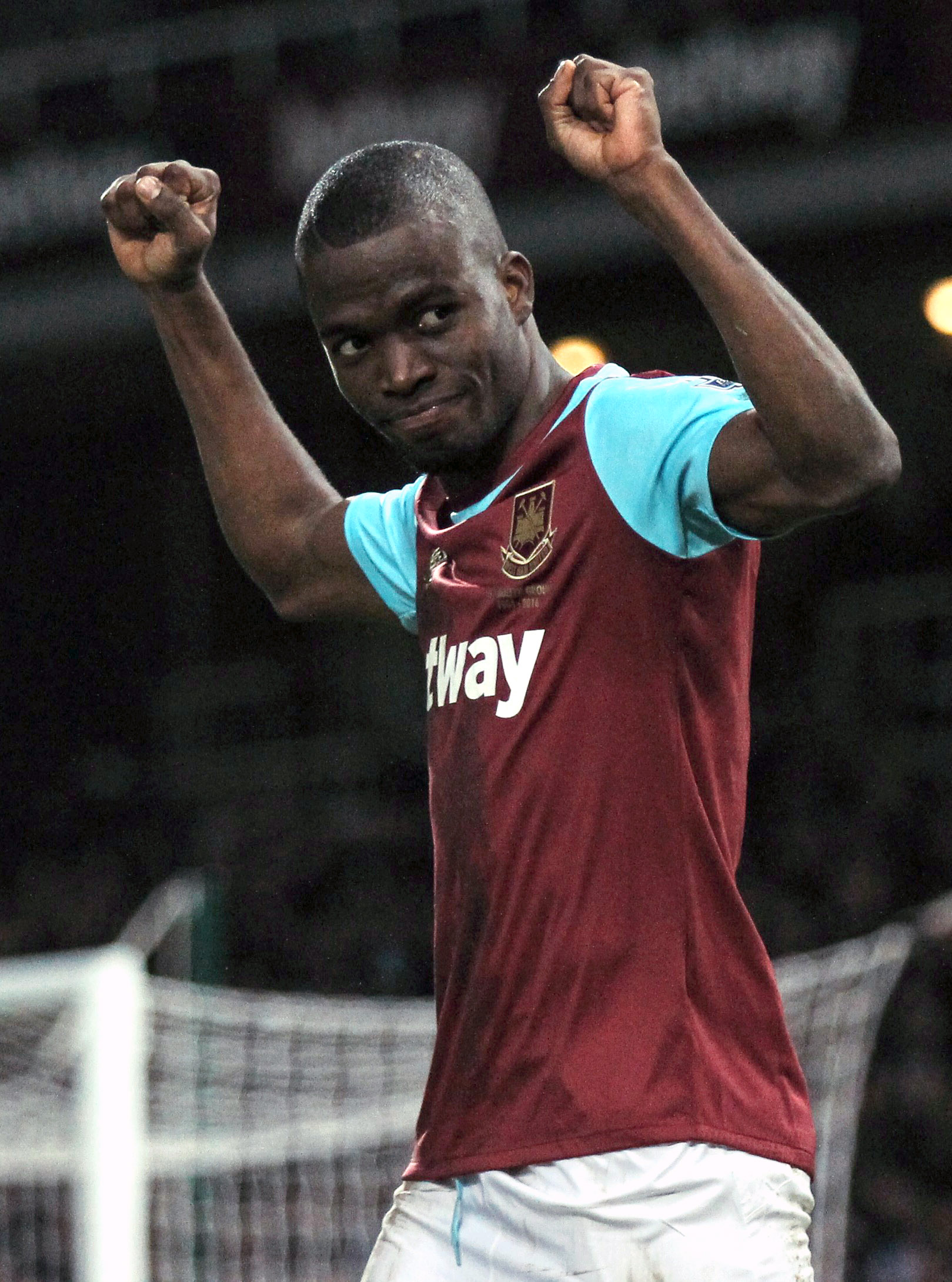 Enner Valencia of West Ham celebrates his second goal during the game against Manchester City.